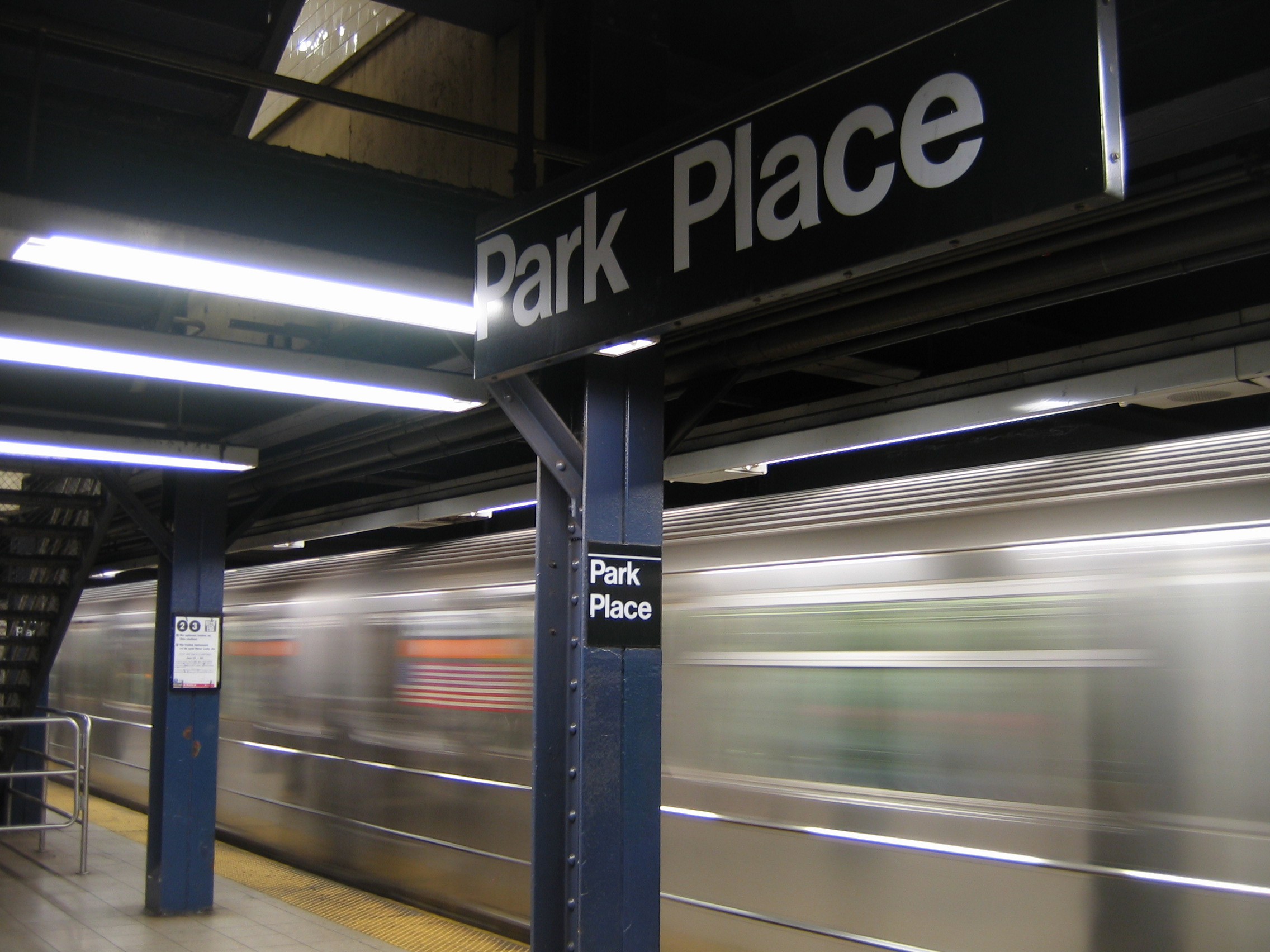 Brooklyn-bound 2 train departing the Park Place subway station.